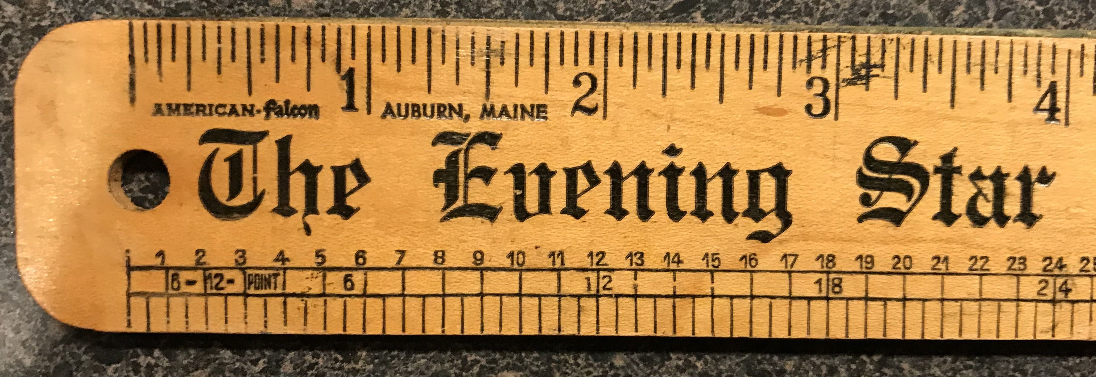 Wooden ruler with several typographic units